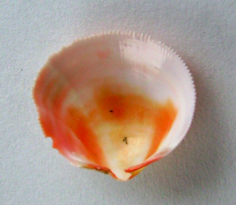 Pratulum pulchellum (inside) dredged from north of Pakiri, New Zealand. This work has been released into the public domain by its author, Graham Bould. This applies worldwide. In some countries this may not be legally possible; if so: Graham Bould grants anyone the right to use this work for any purpose, without any conditions, unless such conditions are required by law.